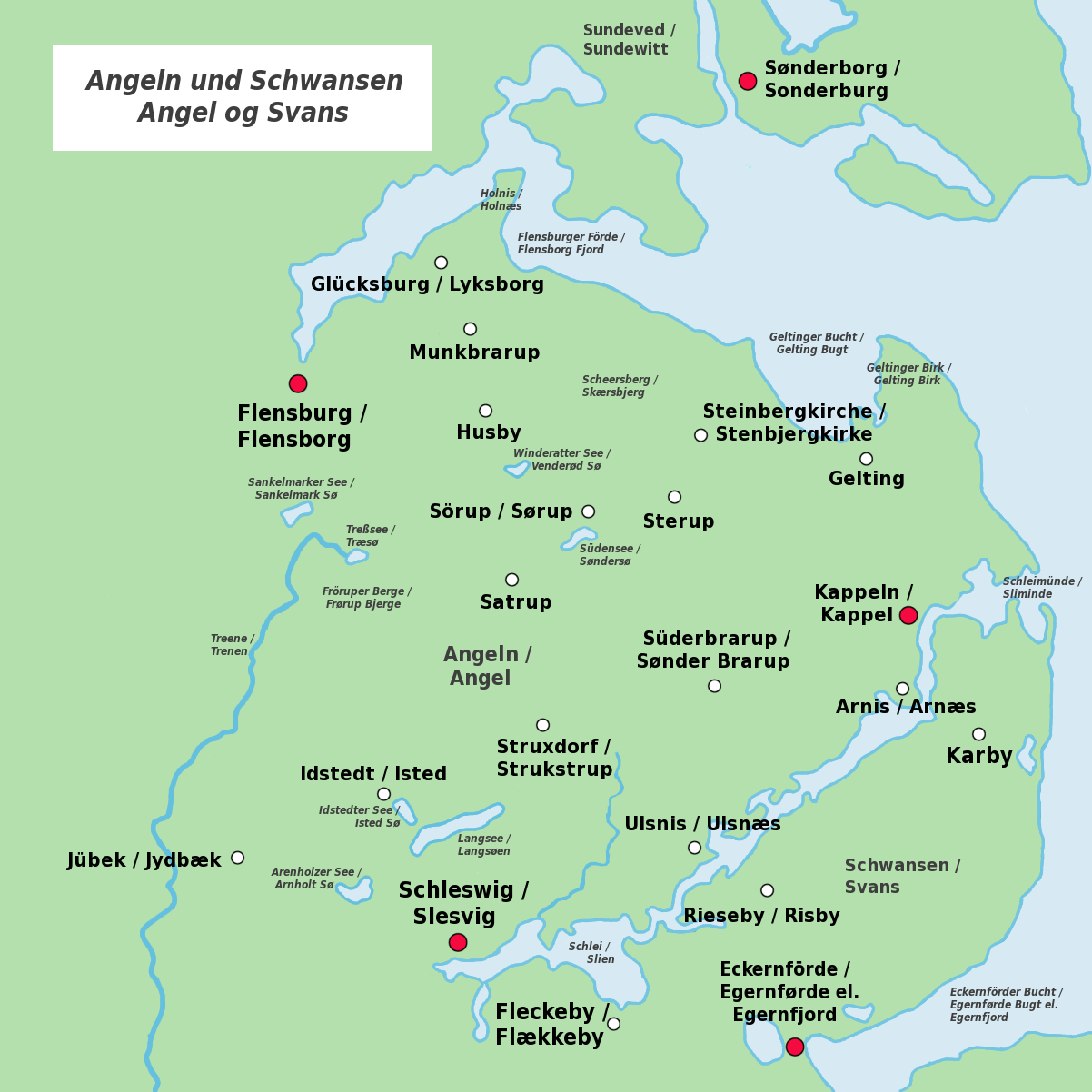 Bilingual map of Angeln (Angel) and Schwansen (Svans)